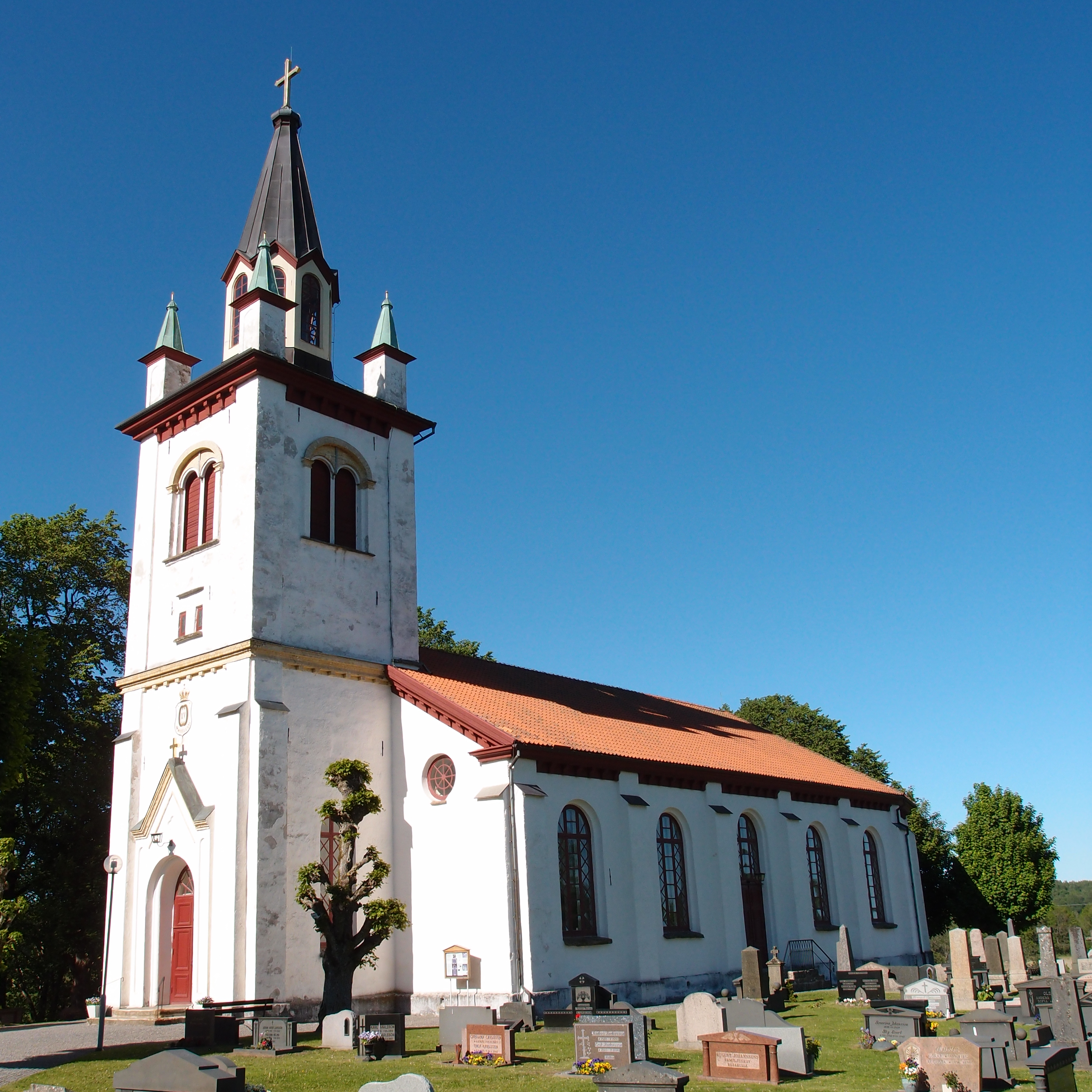 Fotskäl Church